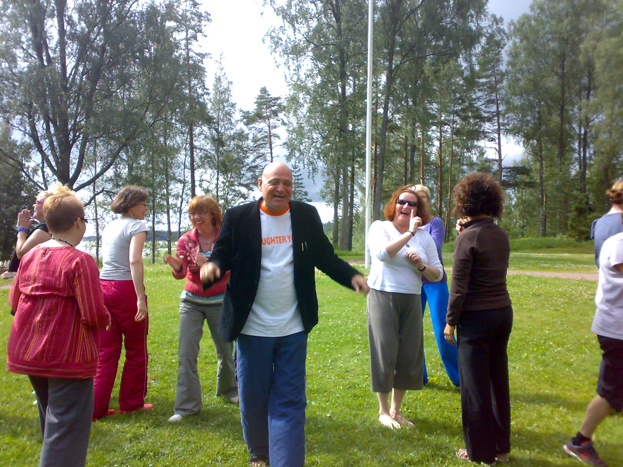 Laughter Yoga Teacher training Finland 2009. In the picture is Dr. Madan Kataria the Founder of Laughter Yoga movement.